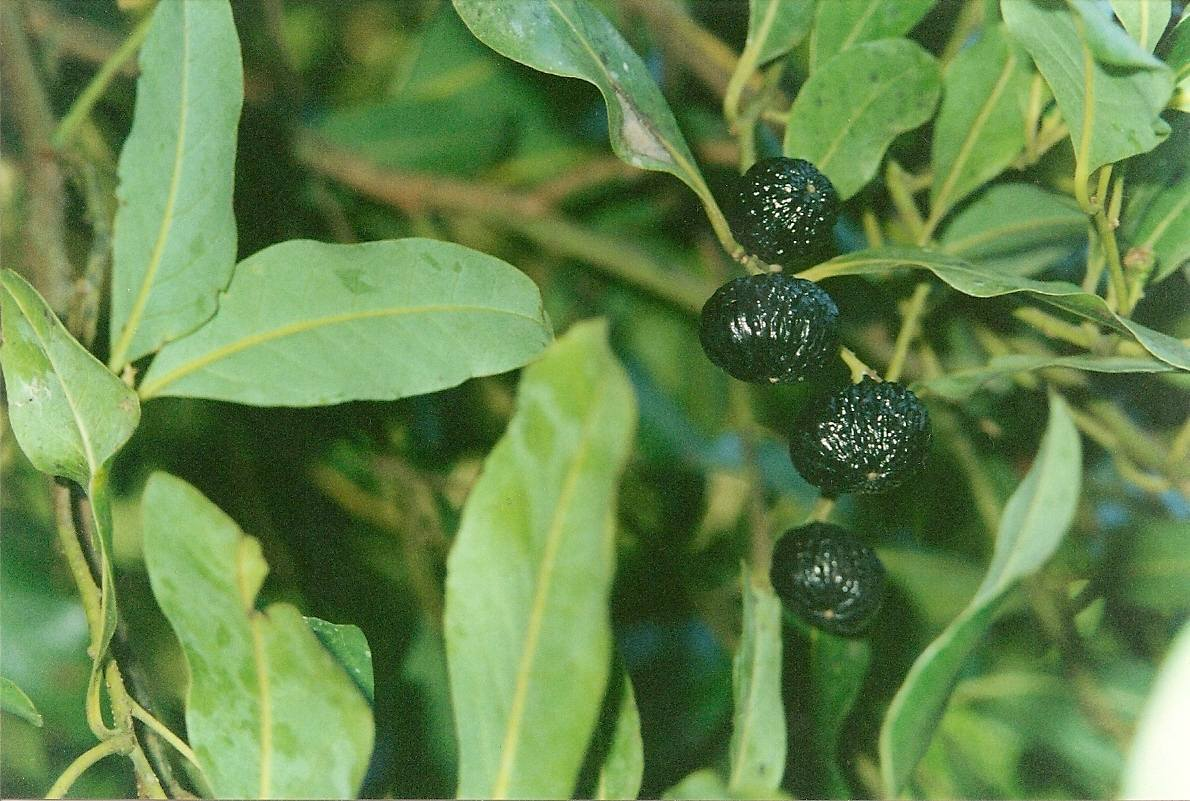 Cryptocarya glaucescens fruit & foliage; Red Cedar Flat, Royal National Park, Australia